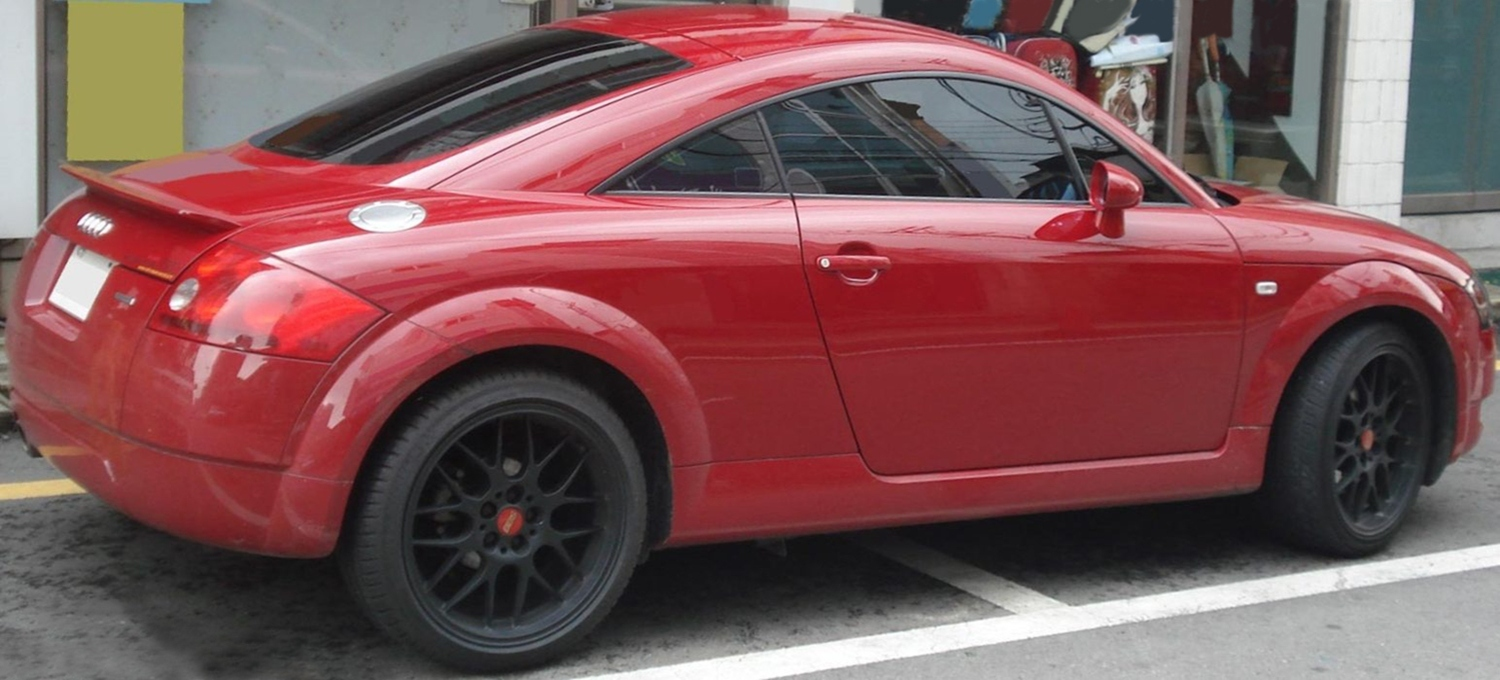 Audi TT